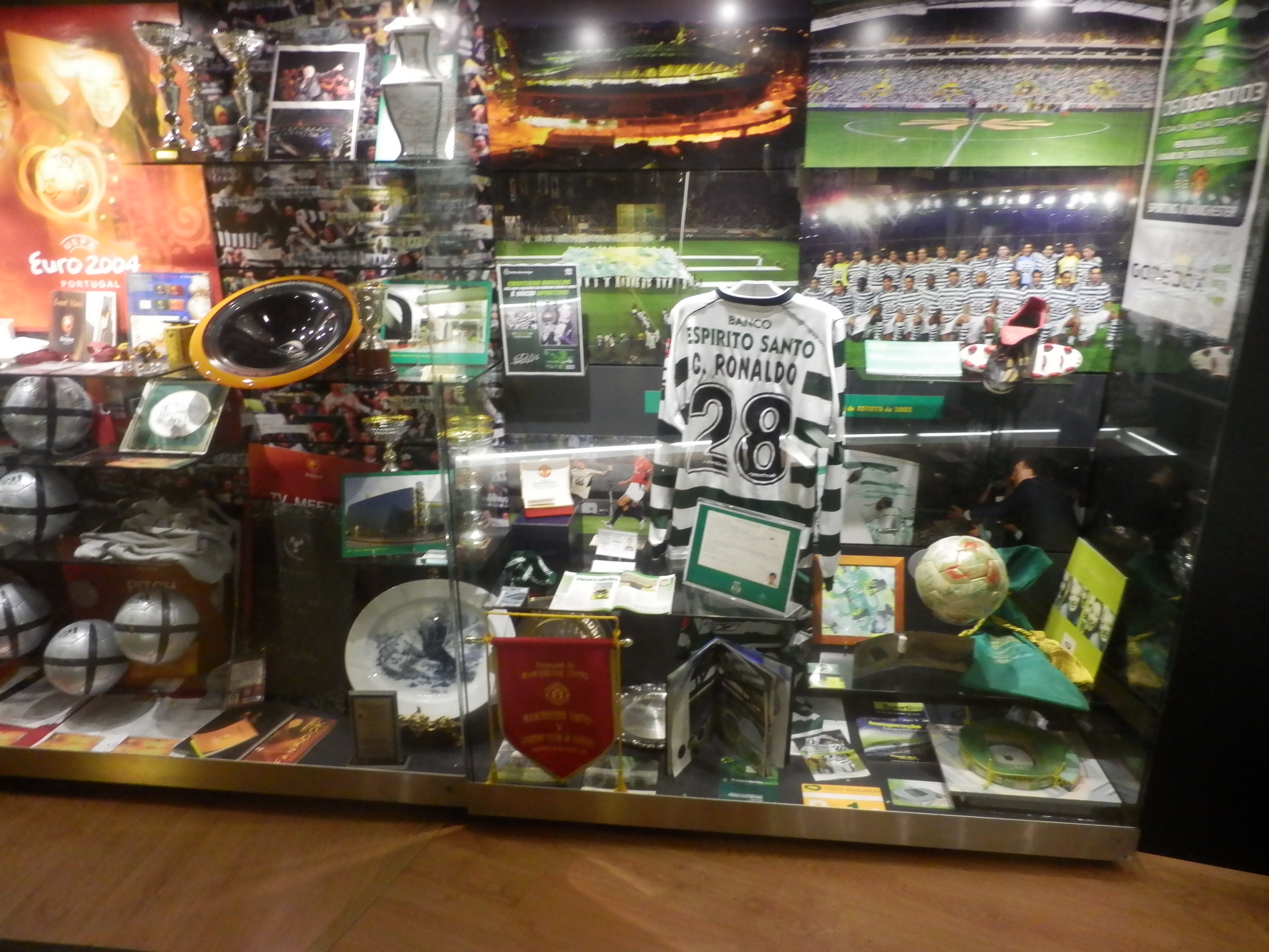 Shirt of Cristiano Ronaldo at the museum, below is pictures of his game against Manchester United on the inauguration of Alvalade XXI. Euro 2004 on the left